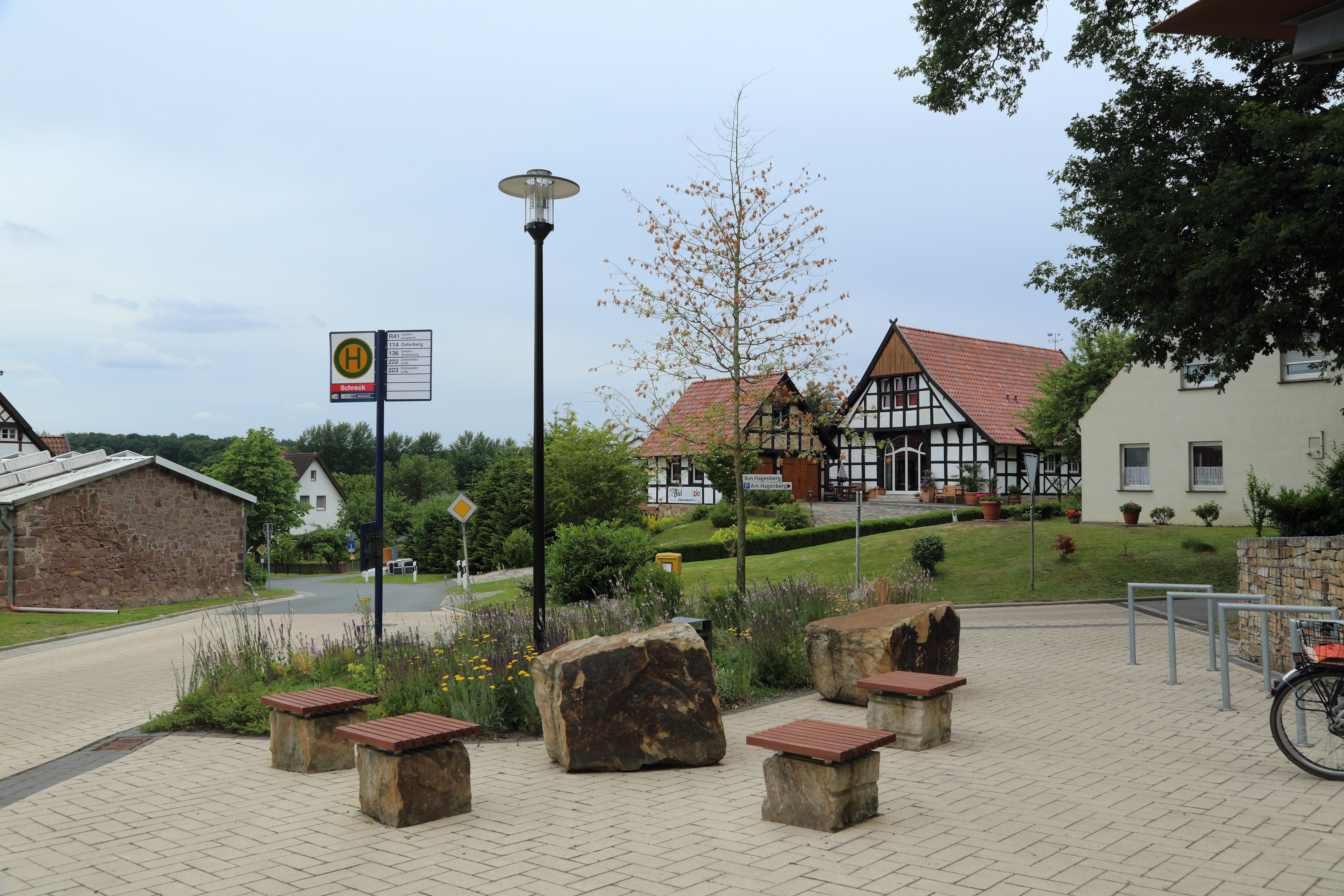 Munster Square (Münsterplatz) in Osterberg, a district of Lotte, Kreis Steinfurt, North Rhine-Westphalia, Germany.